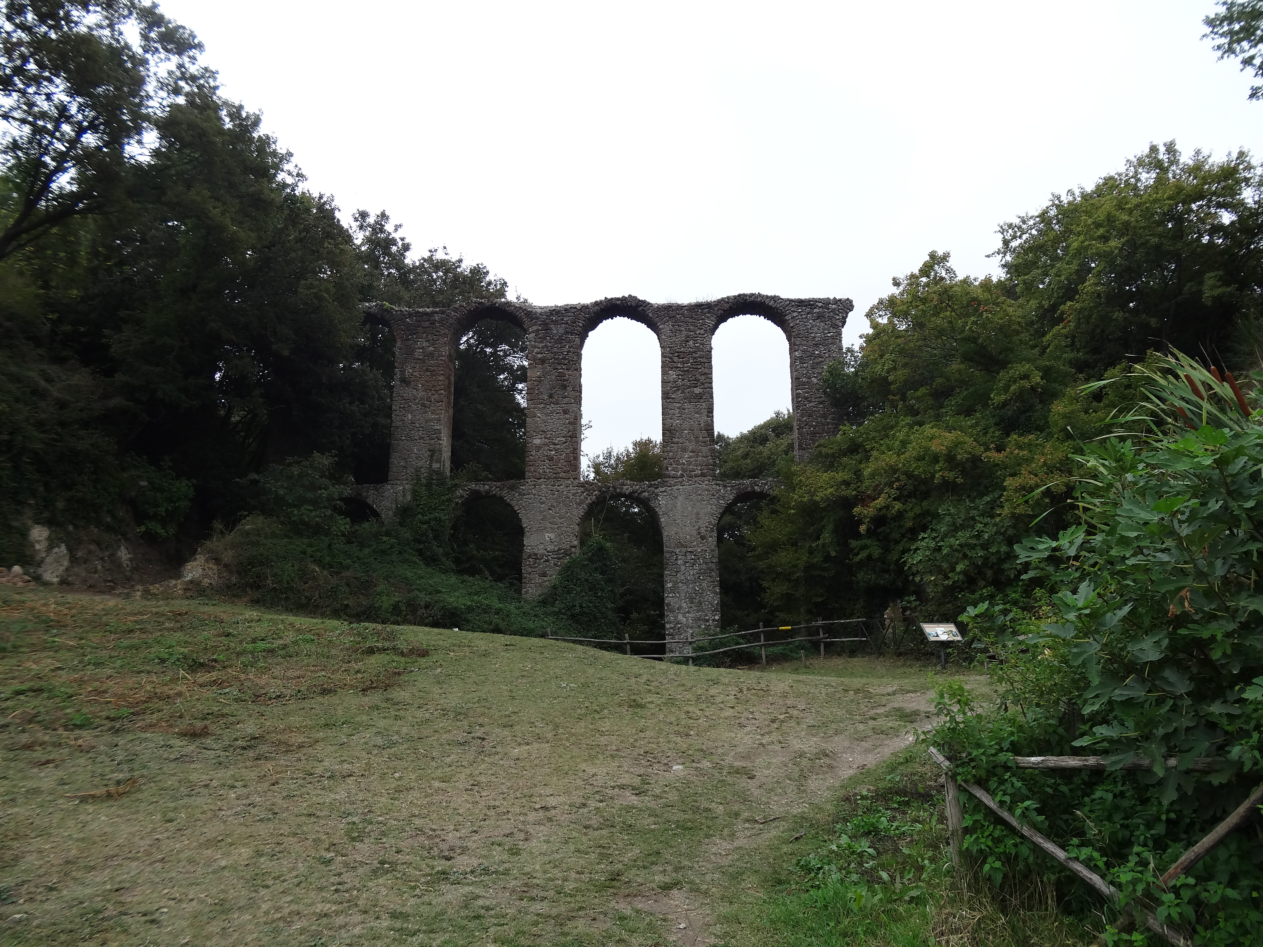 Acquedotto Monterano